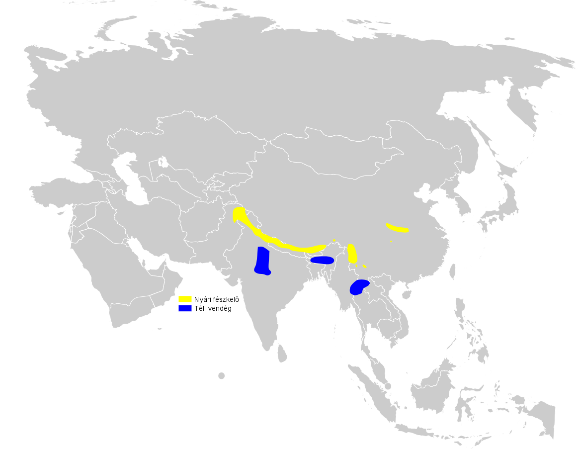 Cephalopyrus flammiceps distribution map; using BlankMap-World6.svg, based on